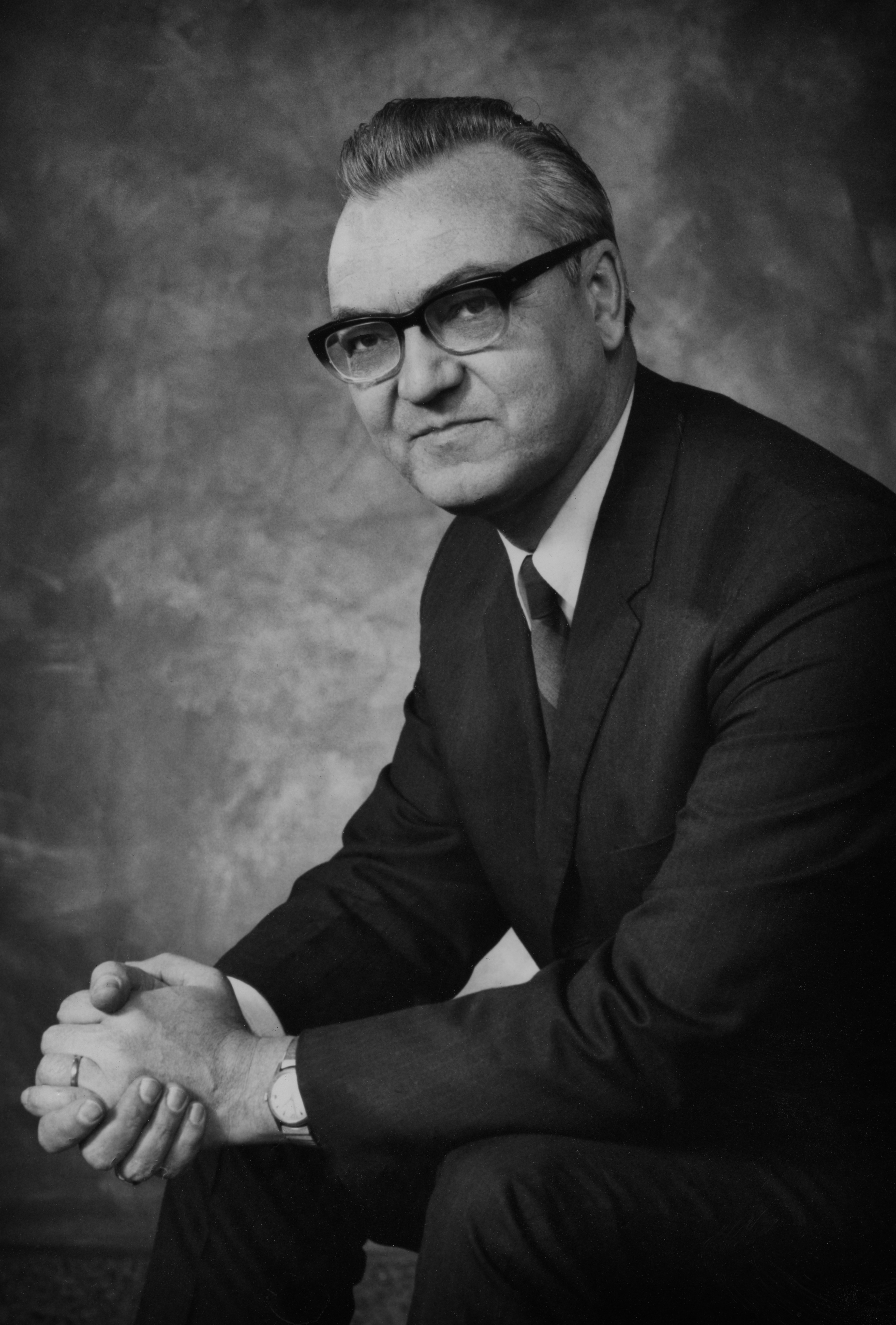 Image from Seneca Archives and Special Collections